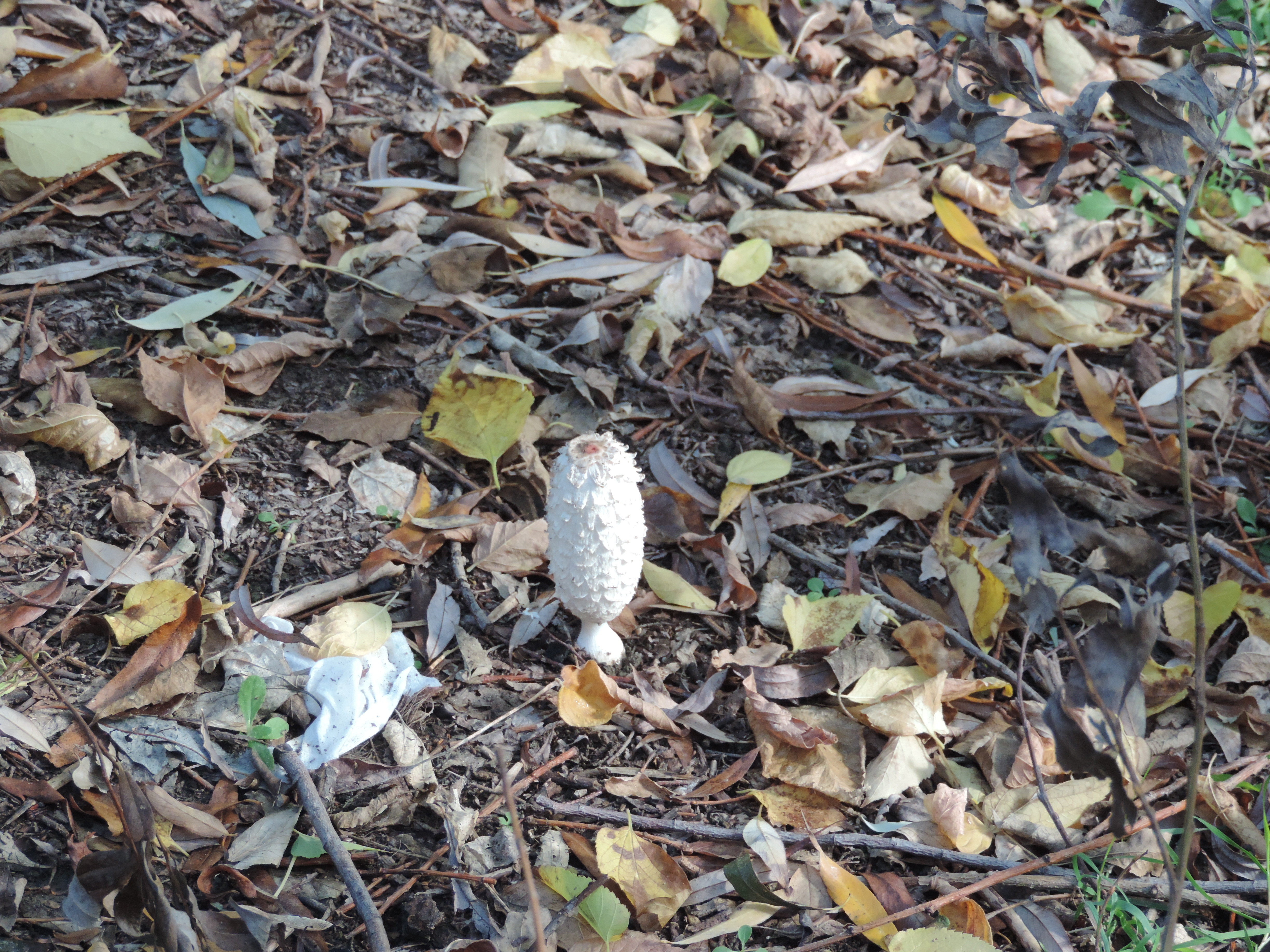 Coprinus comatus